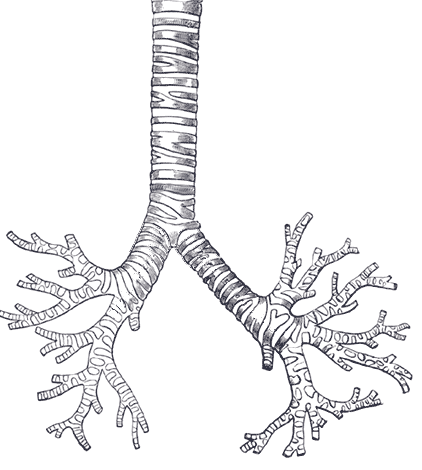 The human trachea